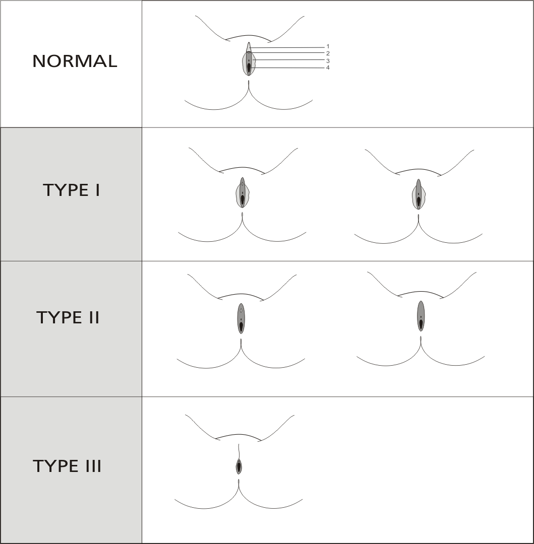 Various Types of FGM